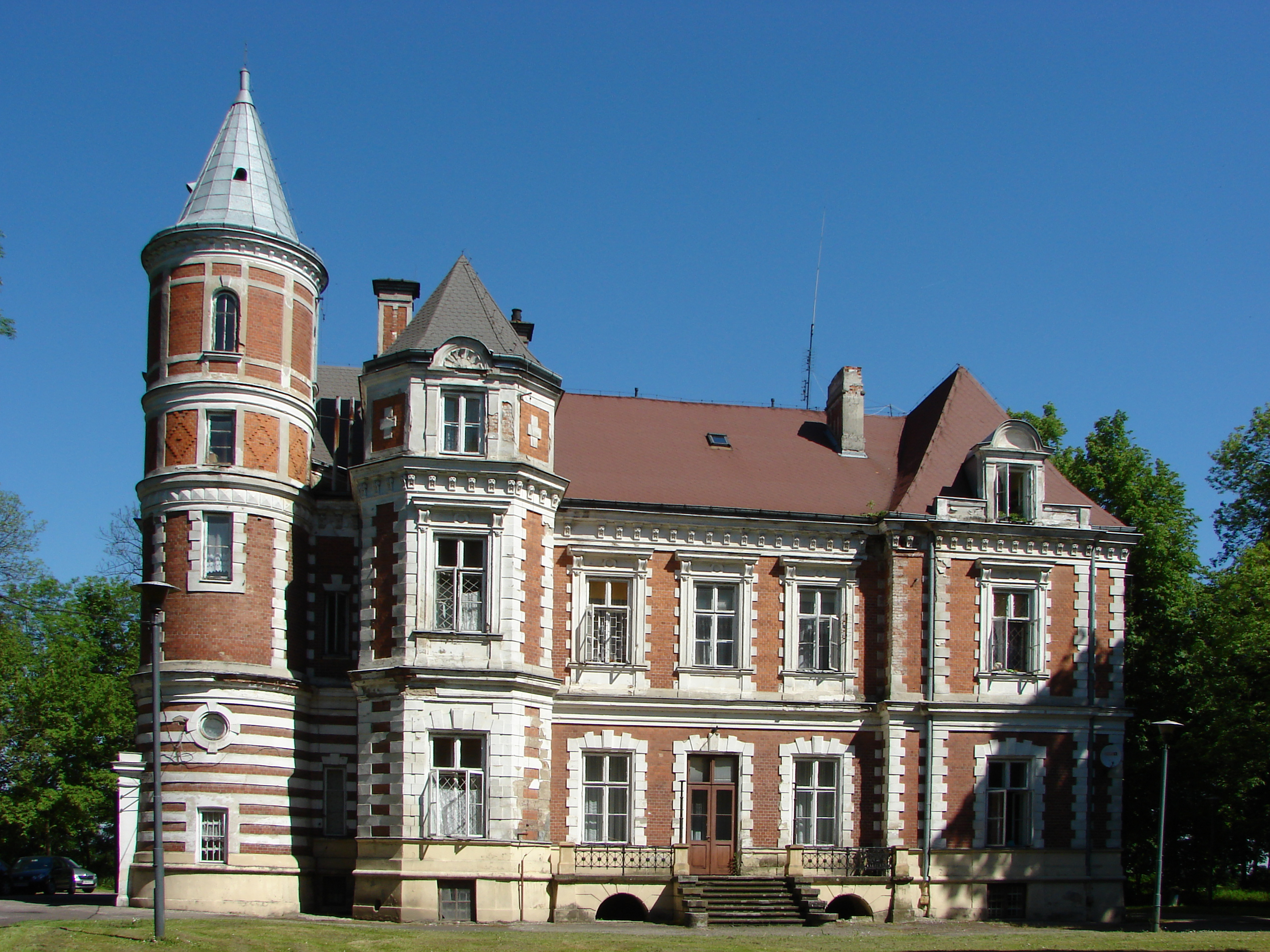 Brzezie, Gmina Brześć Kujawski, Poland. The Kronenberg Palace, 1873-1879.